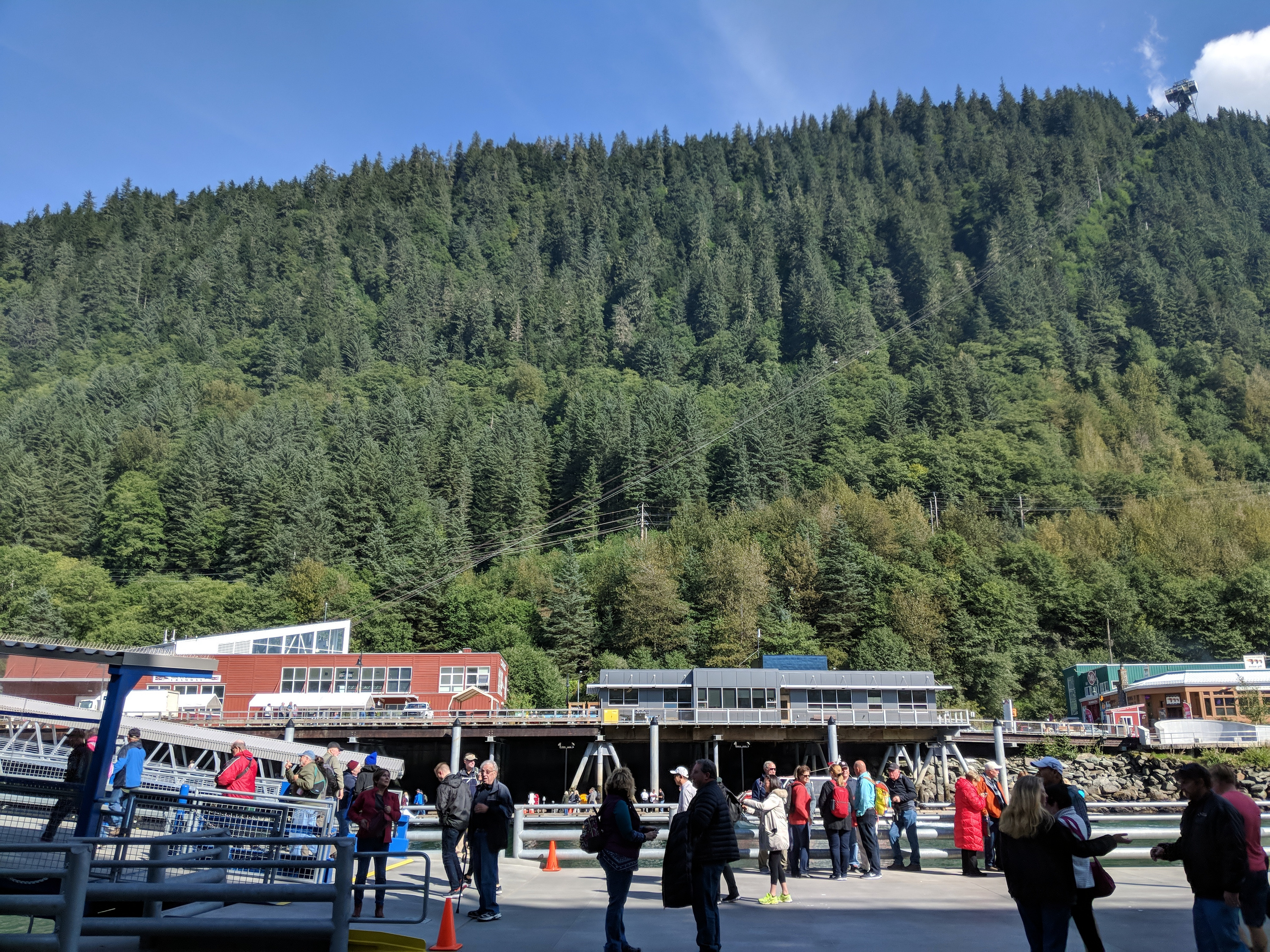 A view from the cruise ship dock of the full tram and of the western flank of Mt. Roberts